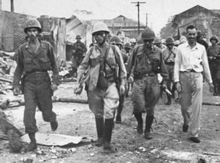 World War II. Ernest Stanley (white shirt) accompanies Japanese soldiers out of Santo Tomas Internment Camp, Manila, Feb 1945